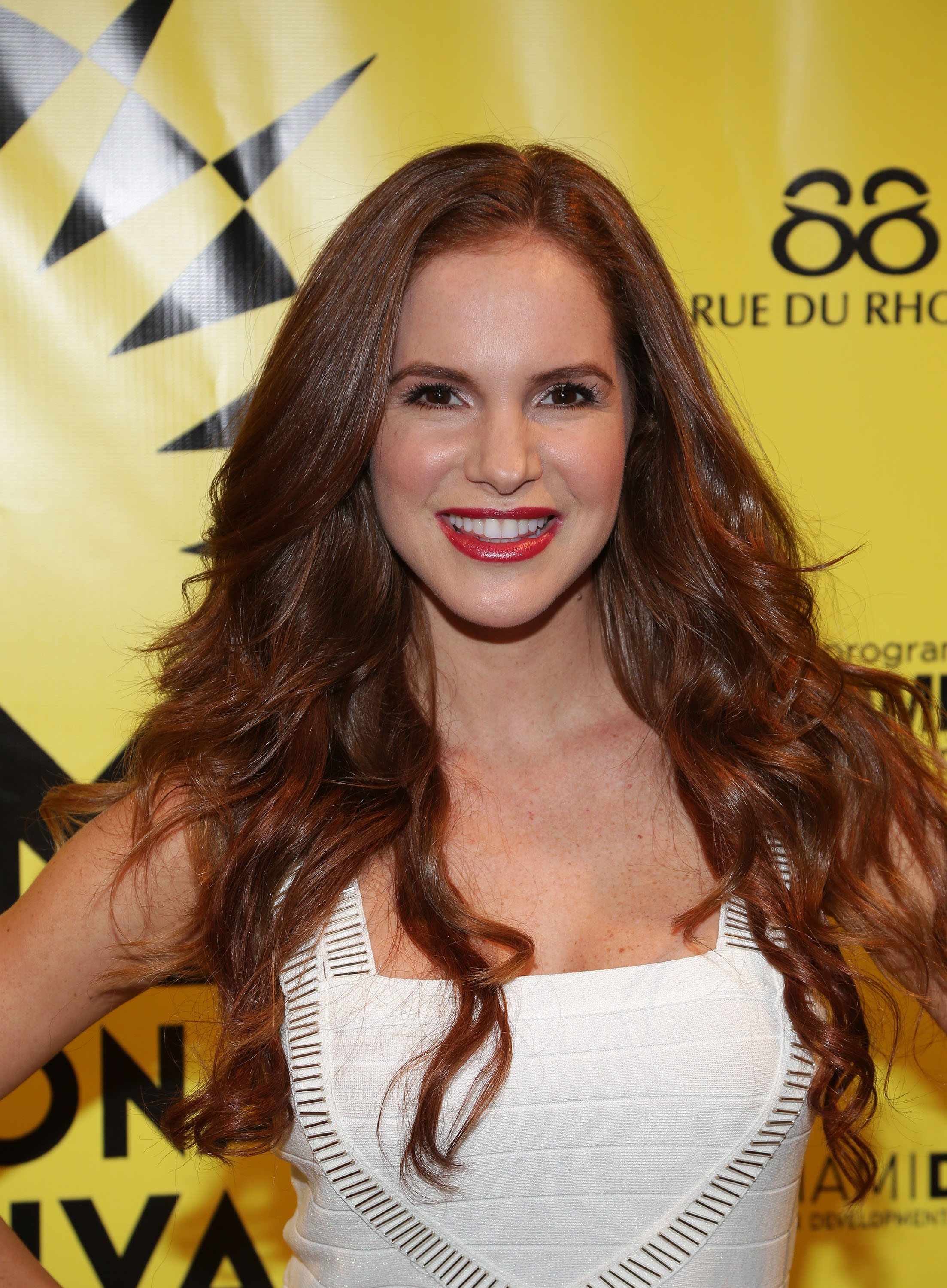 Actress Maritza Bustamante Photo by: Alberto Tamargo